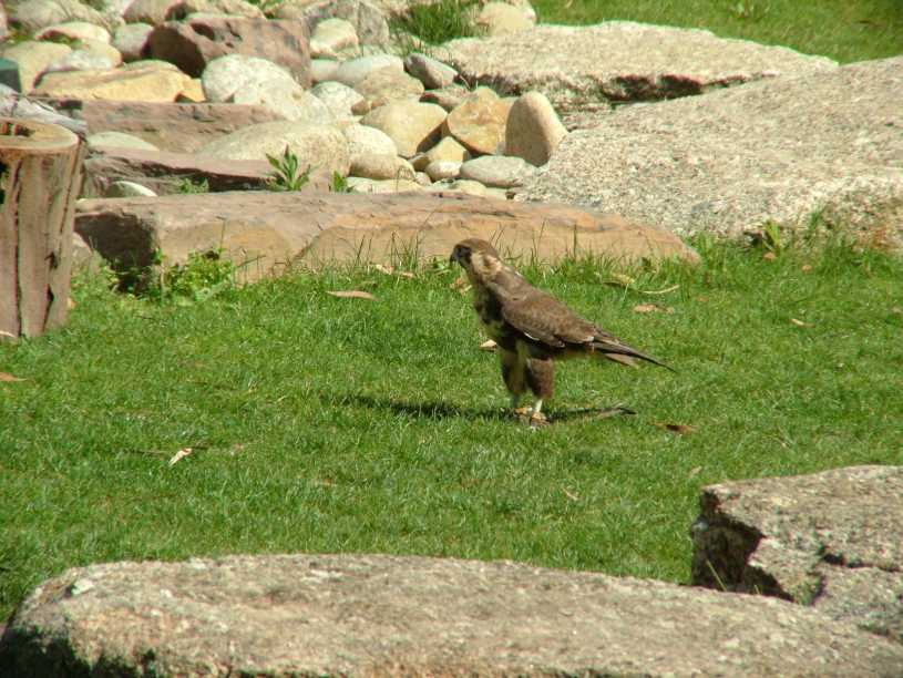 Brown Falcon (Falco berigora), Healesville Zoo, Victoria